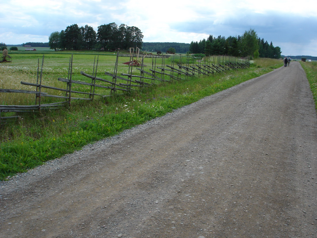 A view from Elonkierto – The Agricultural Exhibition Park of MTT Agrifood Research Finland in Jokioinen Manor in Jokioinen, Finland.